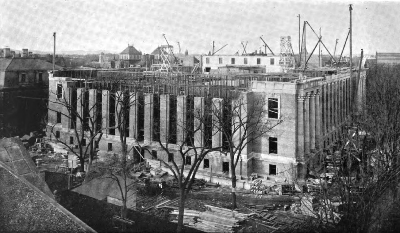 Widener Library under construction. "Steel frame for ten-tier Snead Standard Stack, in course of construction, December 4, 1913. The main third floor of the building is carried on this stack framing." View across Massachusetts Avenue from southeast.